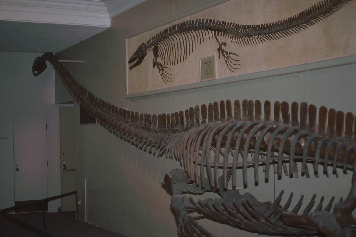 Thalassomedon and Platecarpus, Denver Museum of Science and Nature